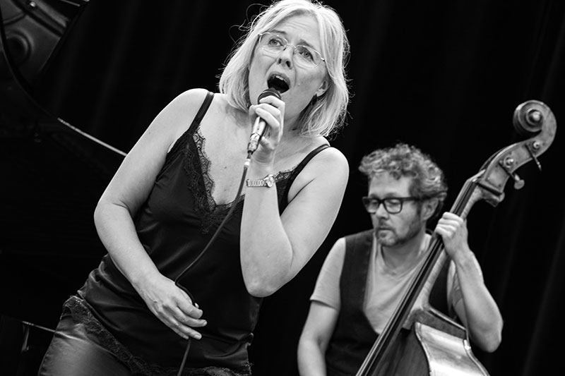 Katrine Madsen and Jesper Bodilsen in Aarhus, Denmark 2018